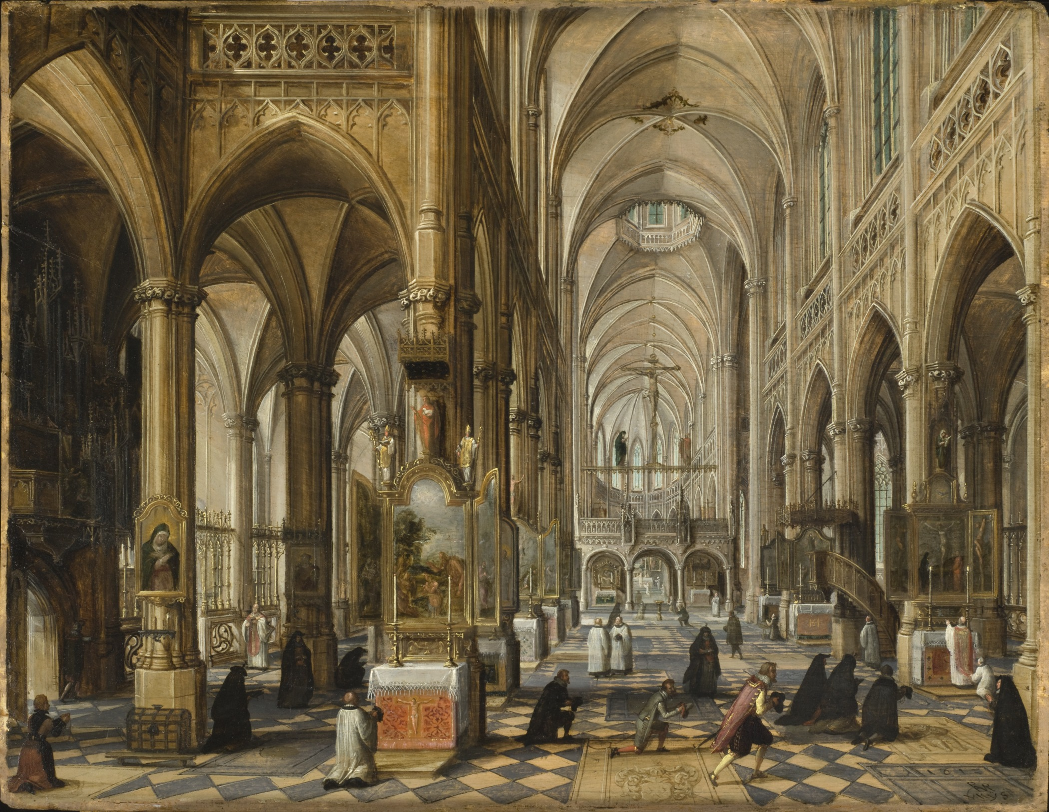 Holland, 1612 Paintings Oil on wood Gift of William Randolph Hearst (49.17.5) European Painting Currently on public view: Ahmanson Building, floor 3